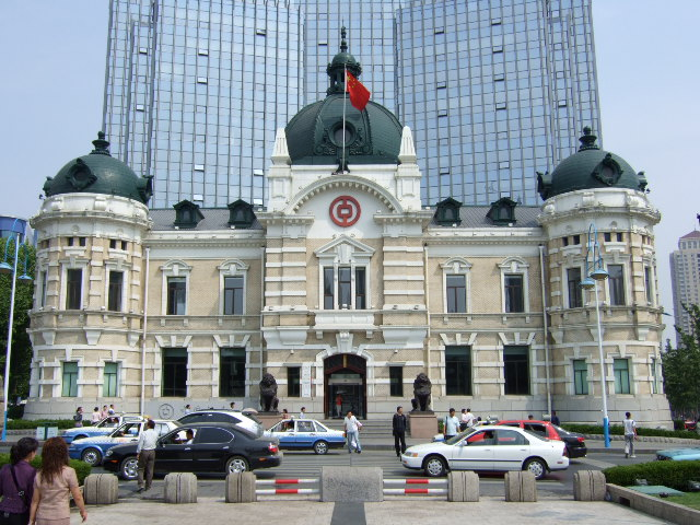 Former Dalian branch of Yokohama Specie Bank